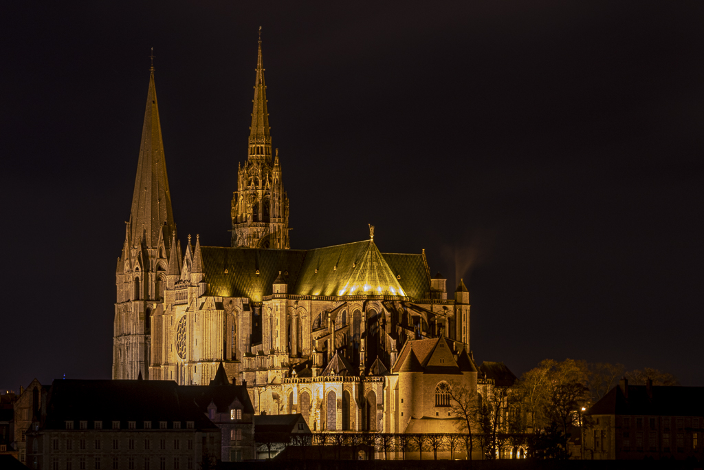 Chartres Cathedrale by night